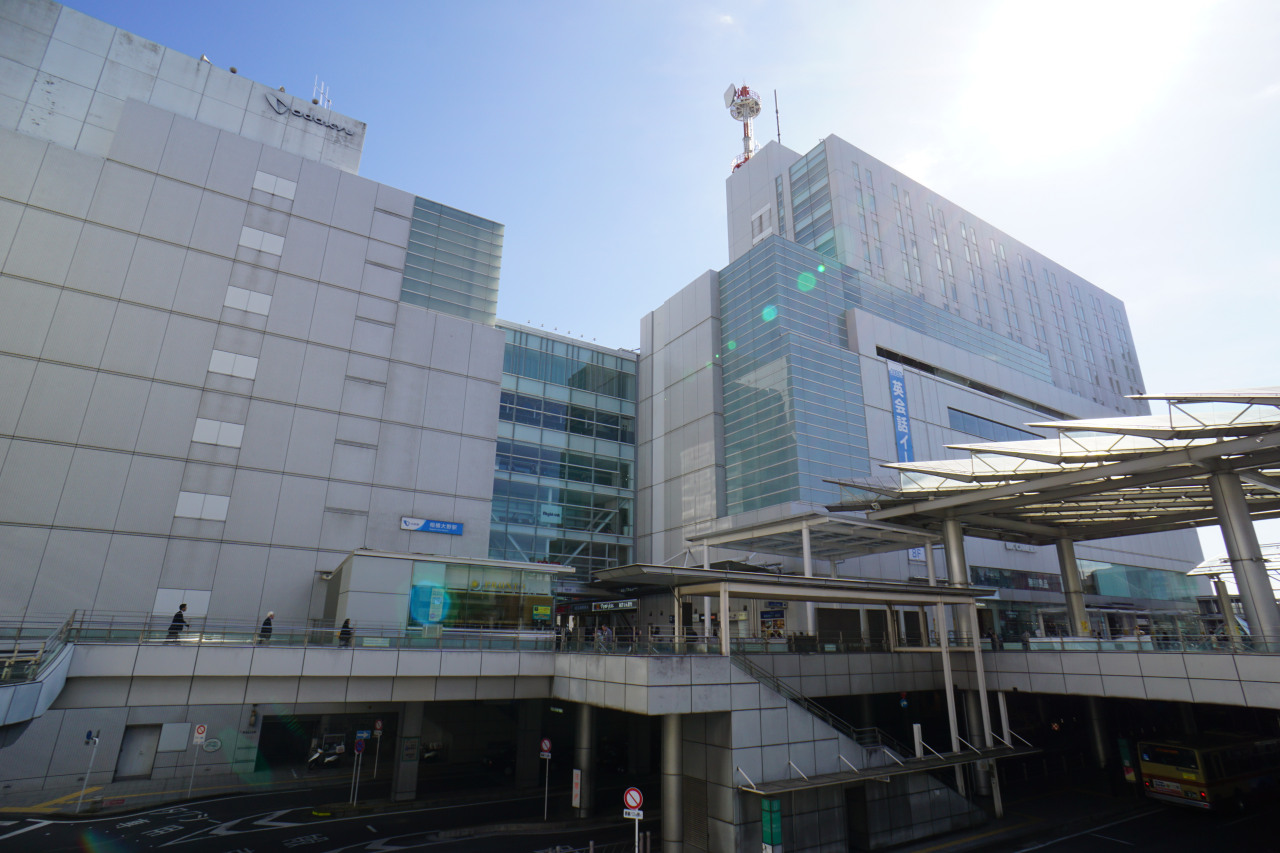 The north side of Sagami-Ono Station in Kanagawa Prefecture, Japan